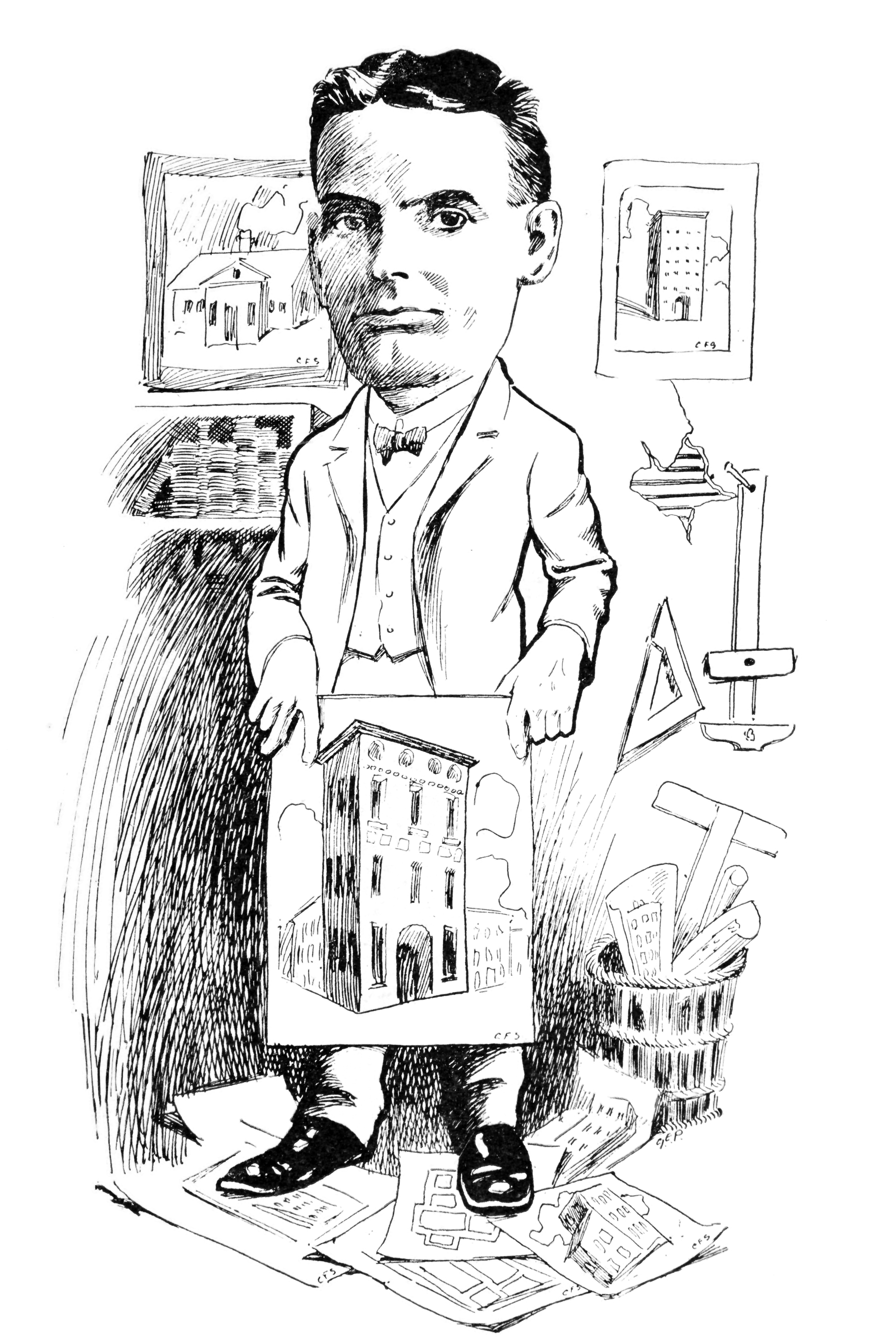 Caricature of architect Chauncey Fitch Skilling